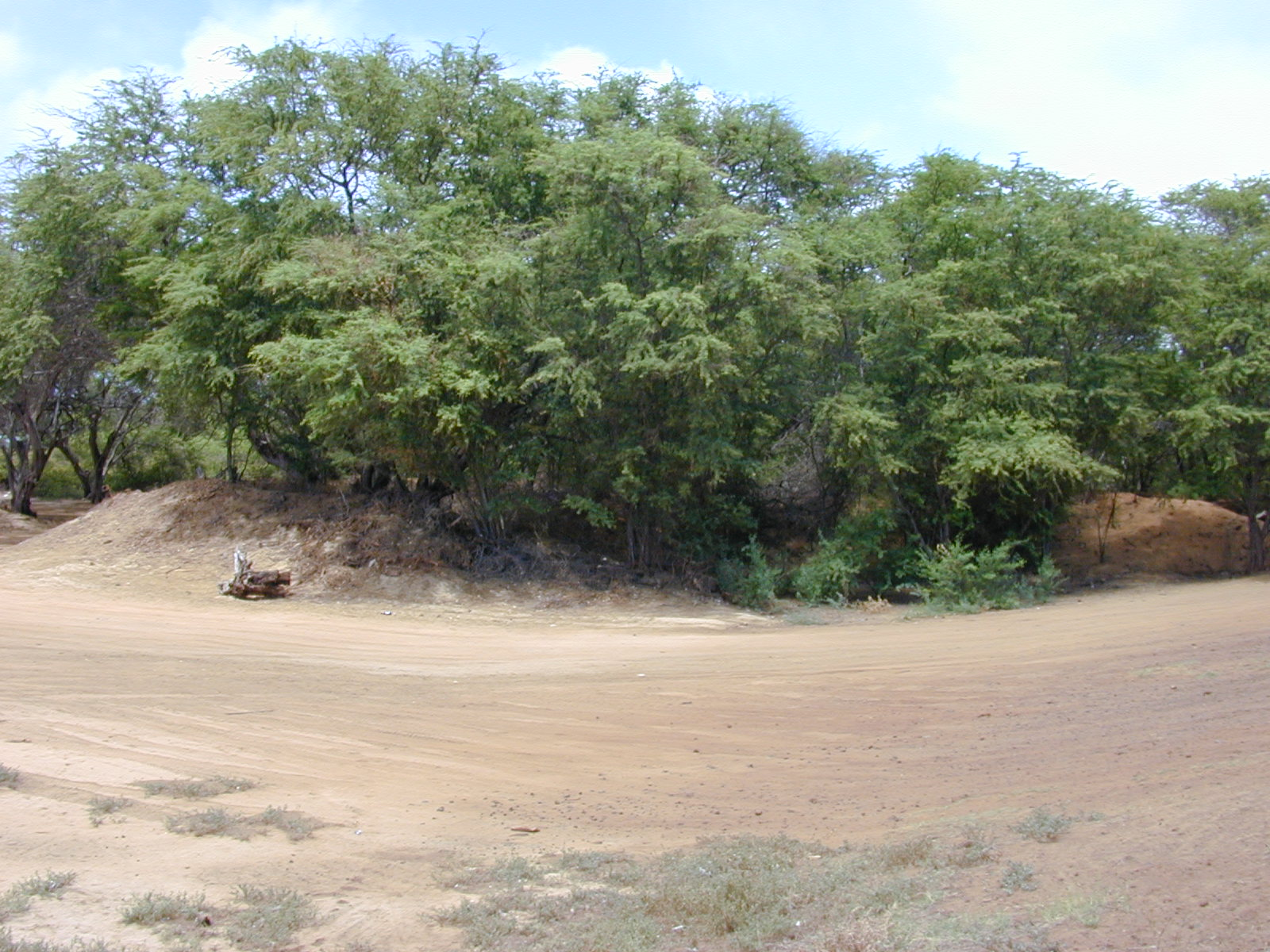 Prosopis pallida (habit). Location: Maui, Kanaha Beach